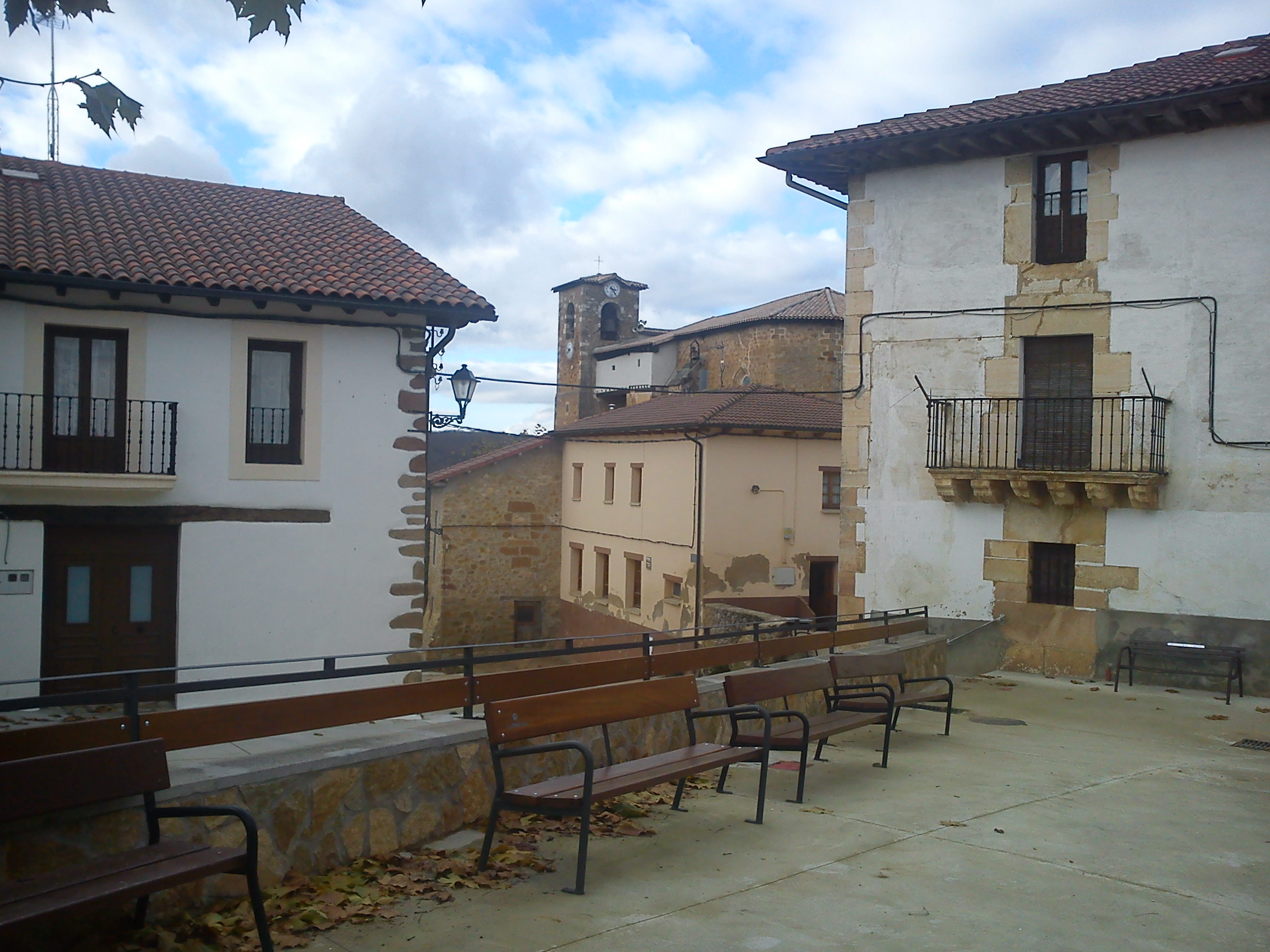 The church and some houses in Kintana, Araba.